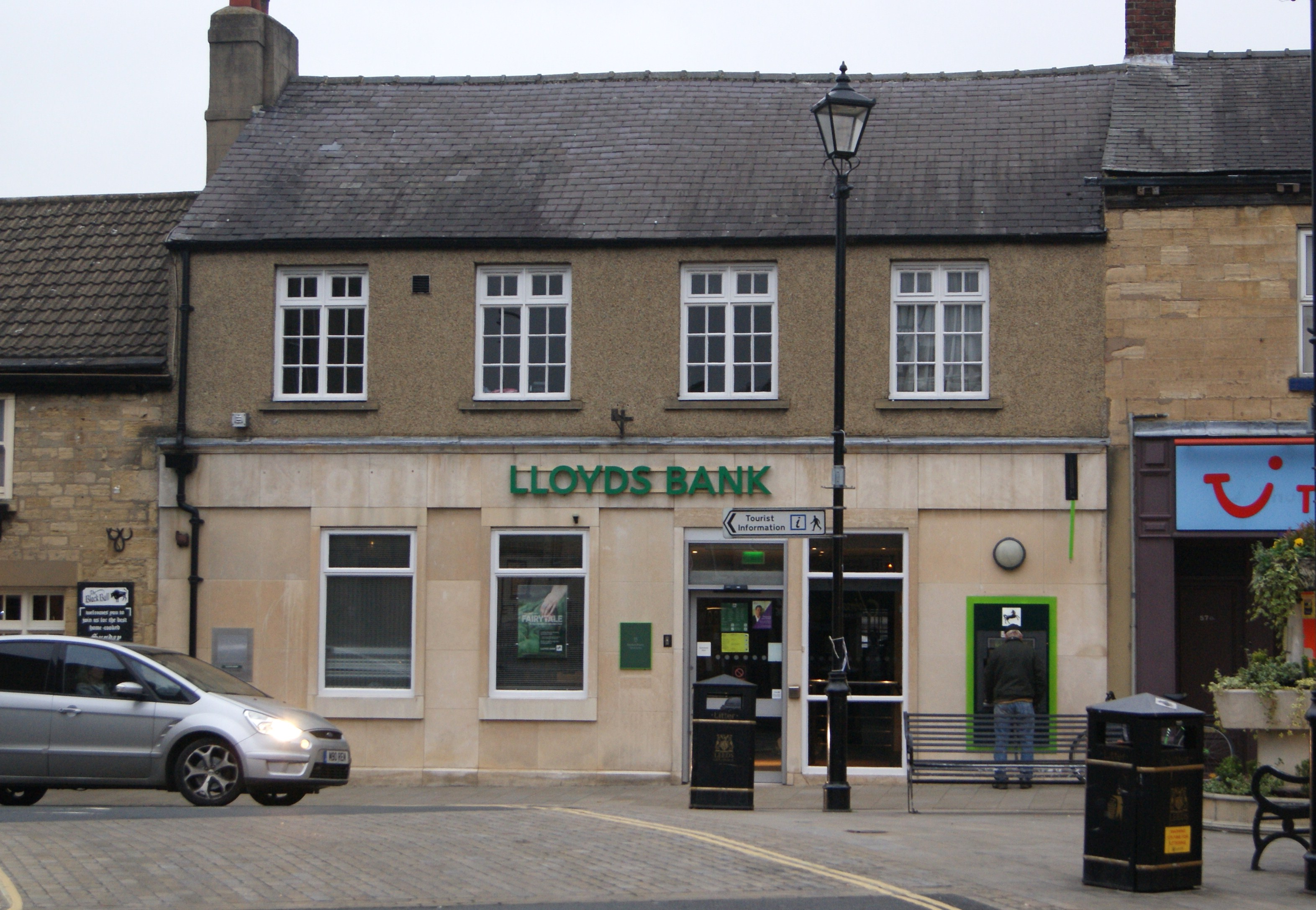 Lloyds Bank (until recently Lloyds TSB; see File:Lloyds TSB, Market Place, Wetherby (6th February 2013).JPG Wetherby, West Yorkshire. Taken on the evening of Saturday the 12th of October 2013.